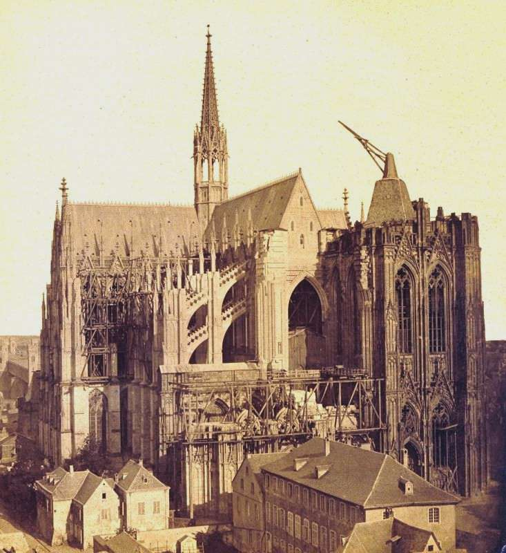 Cologne Cathedral, western facade, south tower with historic crane, 1865, photo by J. H. & Th. Schönscheidt